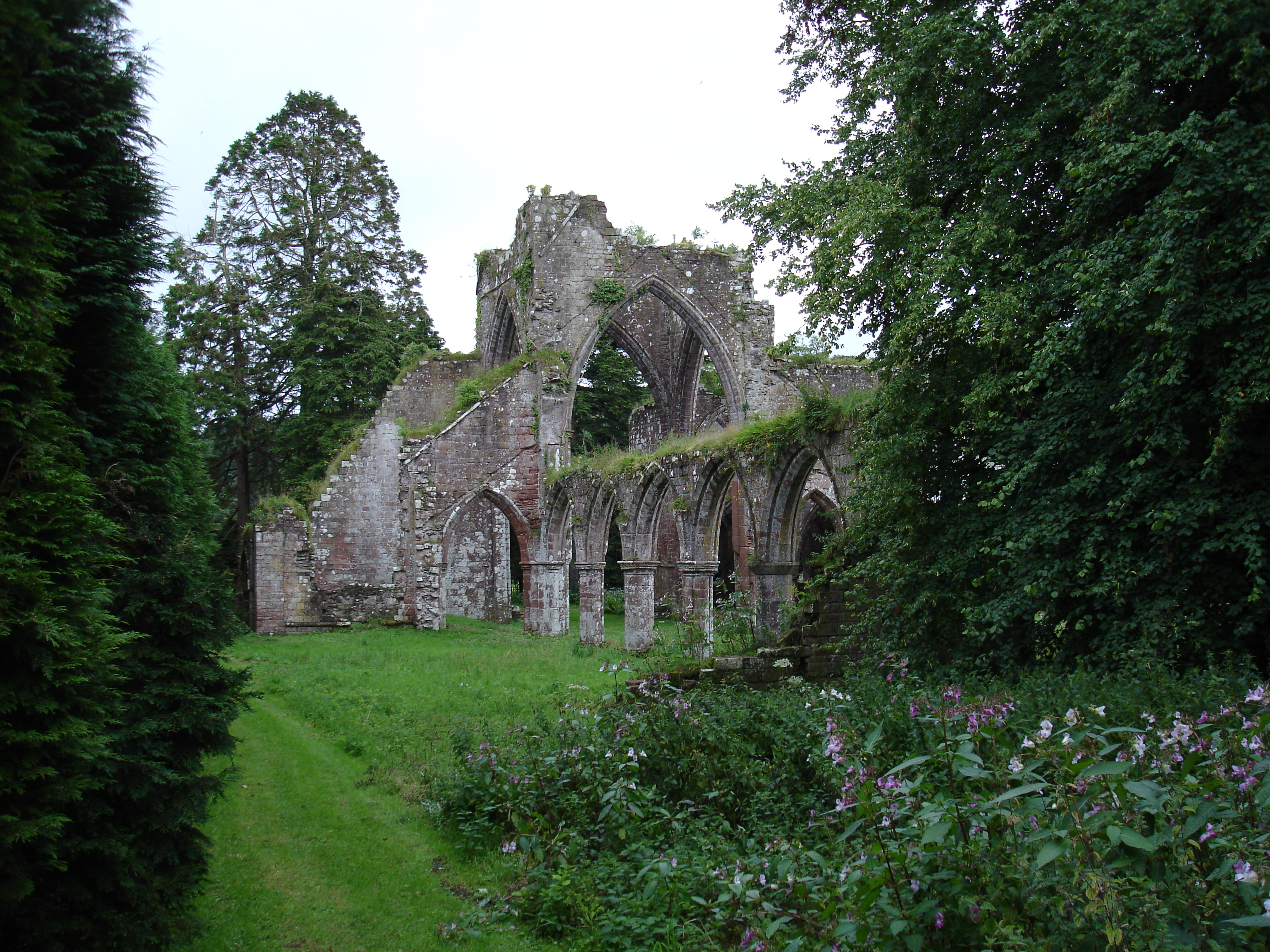 Photograph of Calder Abbey, Cumbria, England